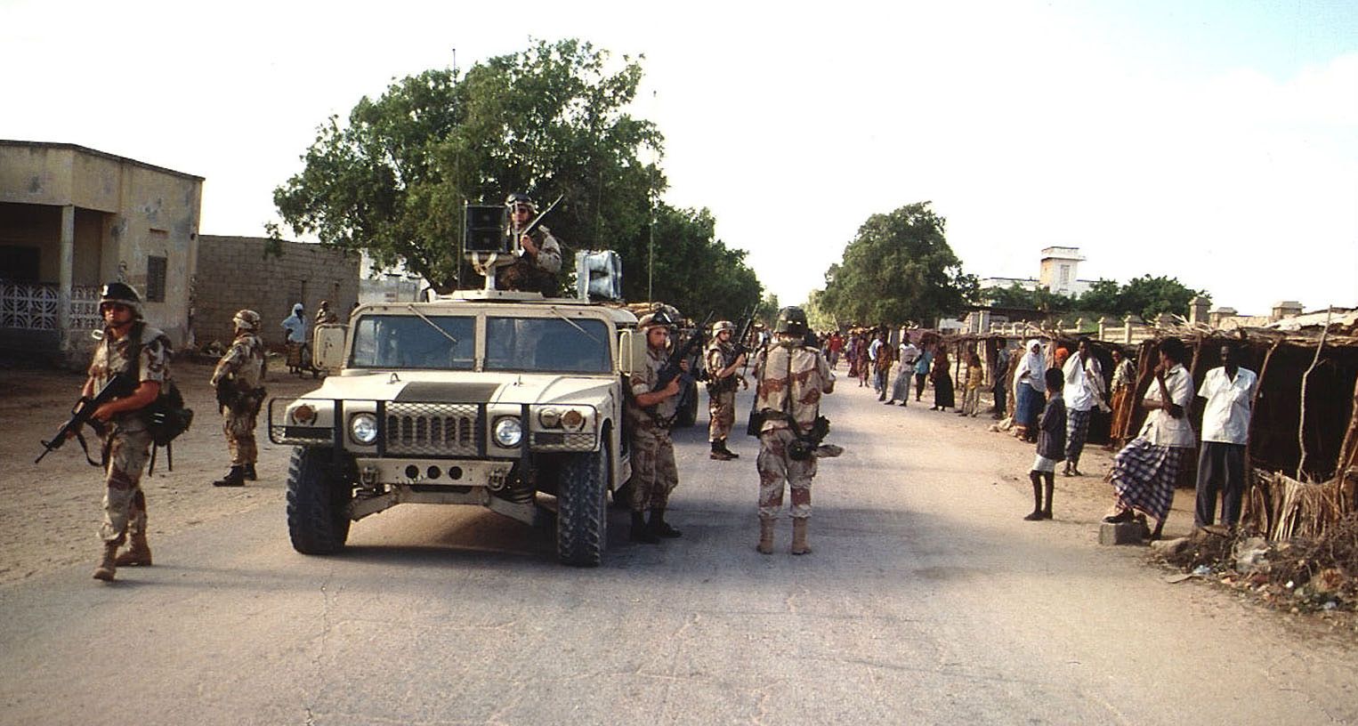 US Army soldiers coming down a street in Kismayo, Somalia. The US Army uses a M998 High-Mobility Multipurpose Wheeled Vehicle (HMMWV) to broadcast messages to the Somali locals that line the street on both sides. This mission is in direct support of Operation Restore Hope.